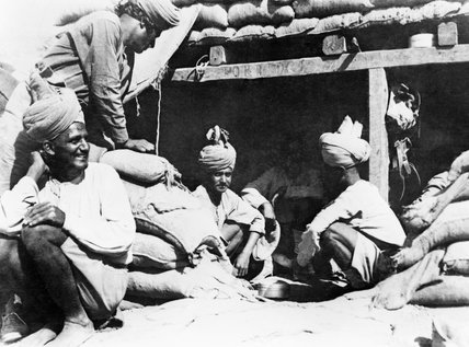 Members of the 123rd Outram's Rifles sitting outside a dug out in Palestine, 1917